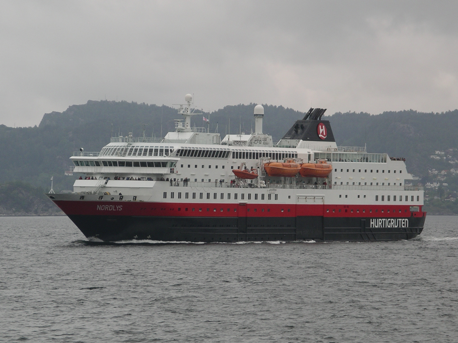 Nordlys in Bergen